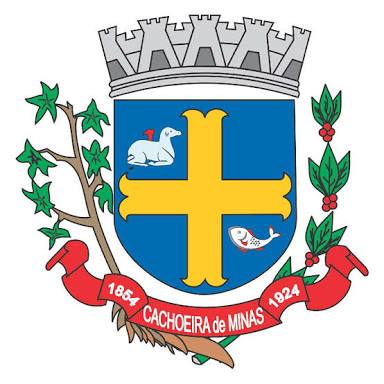 Coat of arms of the city of Cachoeira de Minas, Minas Gerais , Brazil.